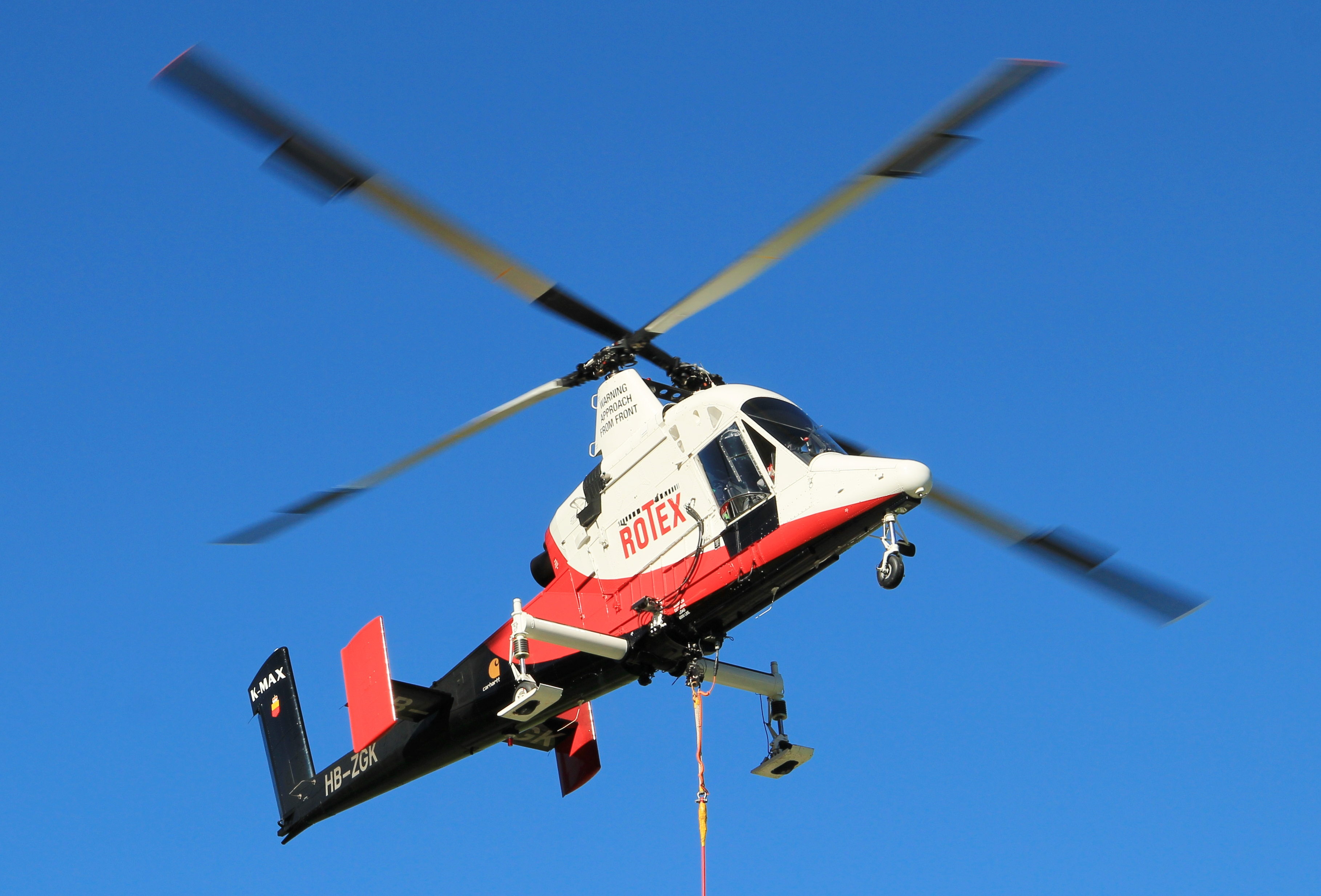 Kaman K-1200 K-Max in hover flight with cargo rope in Arosa, Schwitzerland